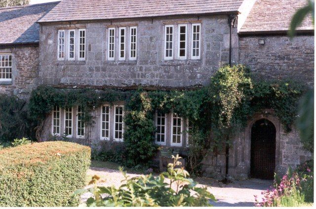 The Manor House, Golden - scene of St Cuthbert's arrest. Golden Manor was once owned by the Cornishman Francis Tregian (1548-1608), an Elizabethan recusant, who sheltered the Catholic priest, Cuthbert Mayne (1544-77) in his home. The Manor House was the scene of the arrest on 8th June 1577 of Cuthbert by Richard Grenville, the Sheriff of Cornwall. Cuthbert was emprisoned and tried at Launceston where he was hung, drawn and quartered six months later. He was the first seminary priest to be executed, and the Church made him a Saint in 1970. The life of Francis Tregian, his host, was spared but he forfeited the manor and spent 26 years in prison refusing to recant his faith. St Cuthbert's death and subsequent events resulted in the eventual demise of the Catholic cause in Cornwall, see 894668. The manor house (photo above) still has many of its interior Tudor features as well as the original entrance and stone mullion windows seen here. For the full St Cuthbert story